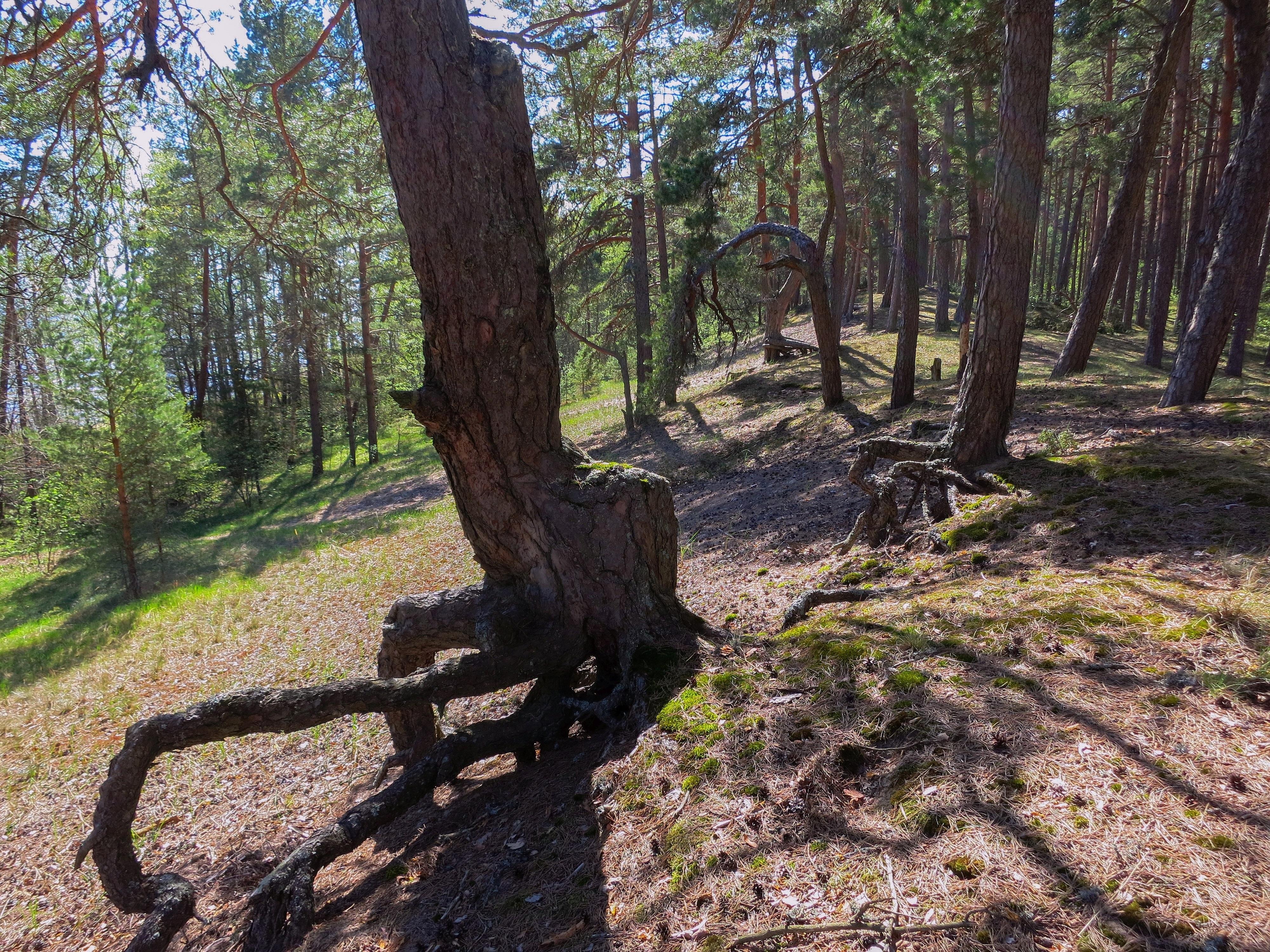 Järvevälja Landscape Protection Area, a view along dune to south-west. (Ida-Viru County, Estonia)